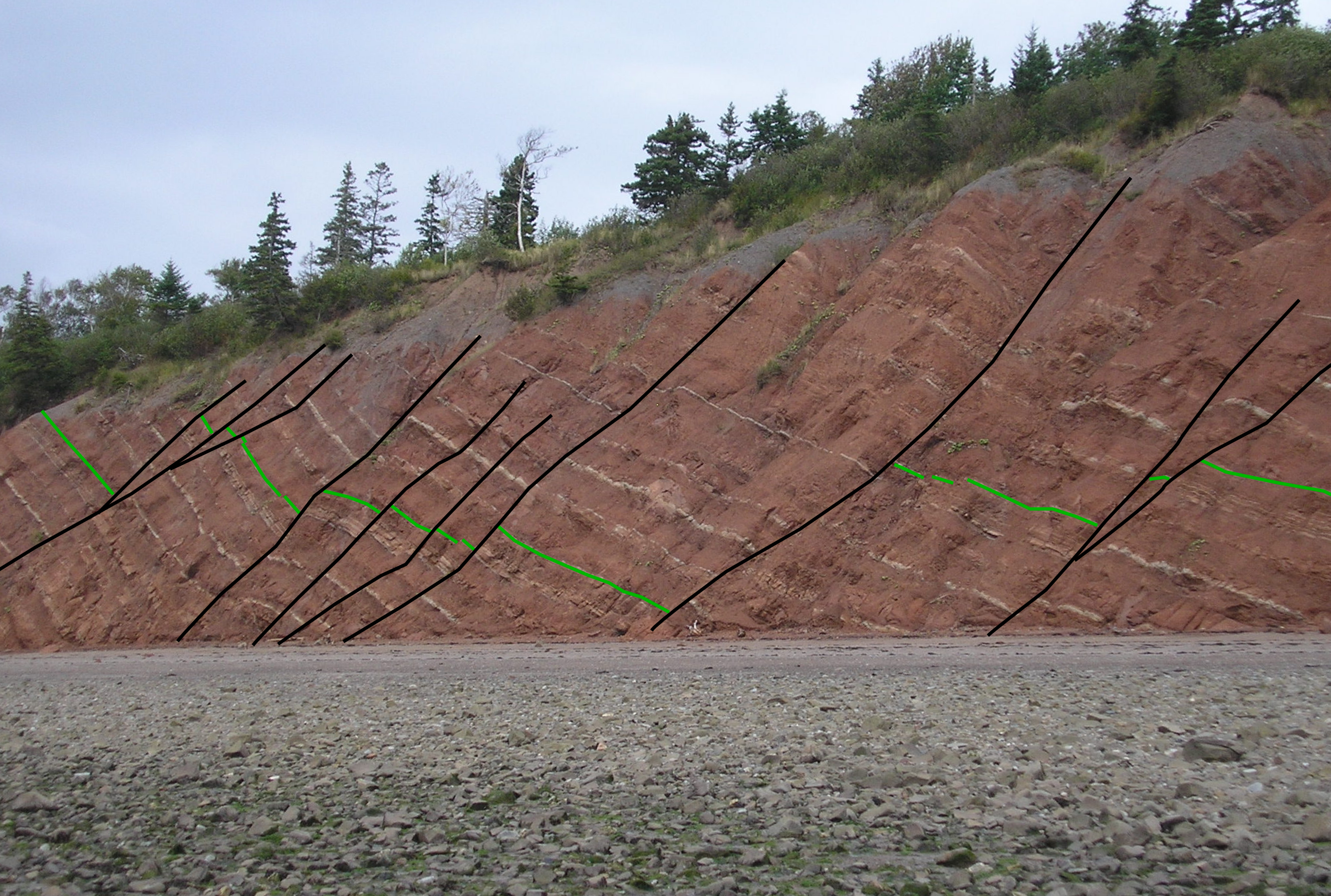 Photograph of extensional fault array on cliffs west of Clarke Head, Minas Basin, North Shore, Nova Scotia. Original modified to highlight location of faults (in black) and a marker horizon (green). Rocks are red mudstones and interbedded fine-grained sandstones of the Blomidon Formation of Upper Triassic (Rhaetian) age.